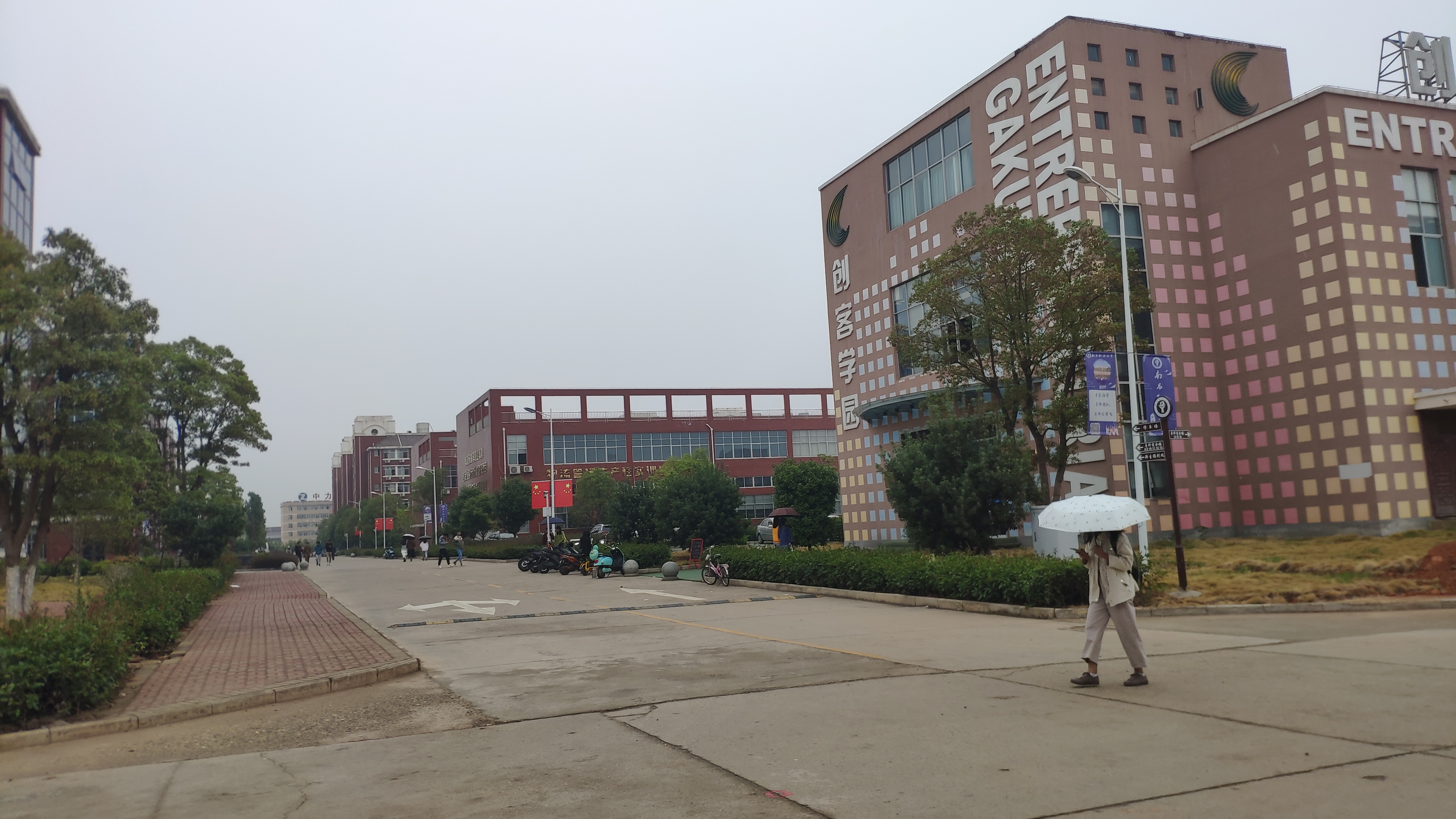 Nanchang Vocational College